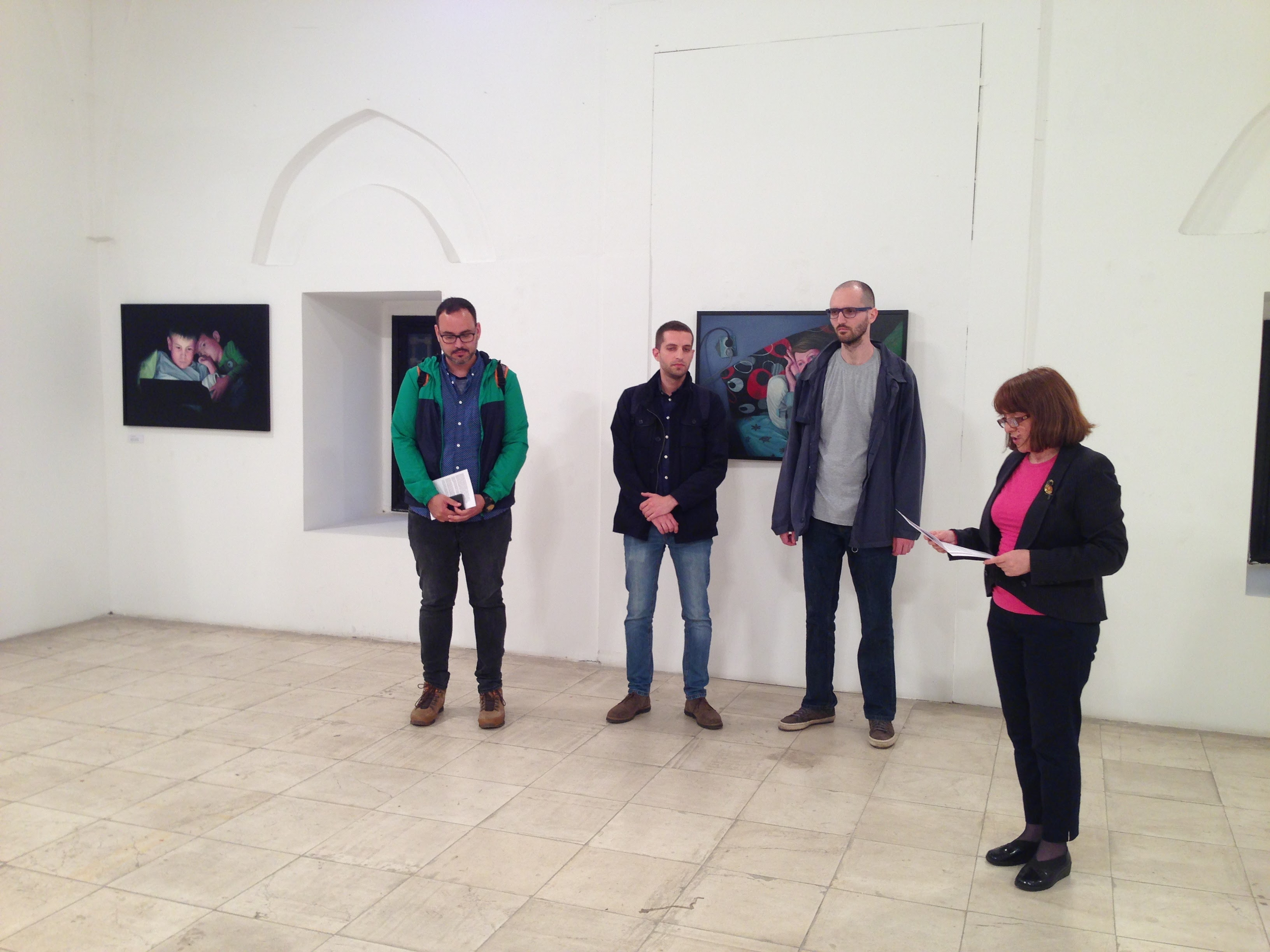 Art Group ST.ART, Belgrade